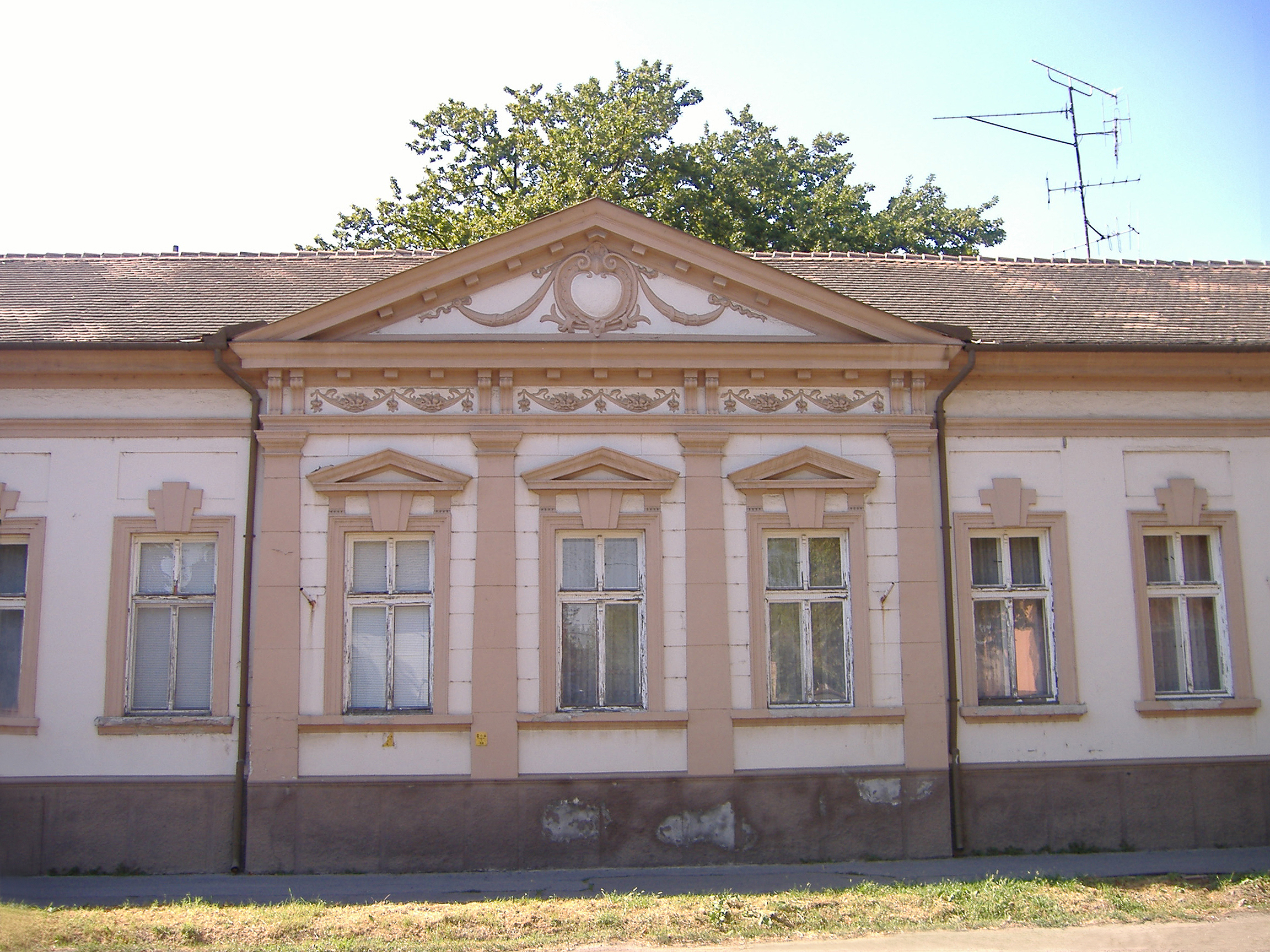 Dózsa-Felletár house, part of the architectural heritage of Makó.